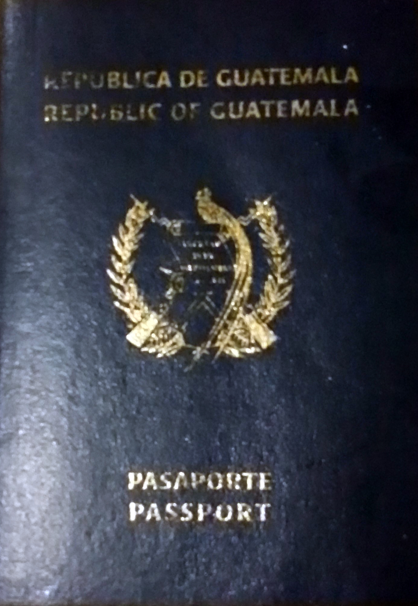 Former cover of the Guatemalan passport, in use until 2006.